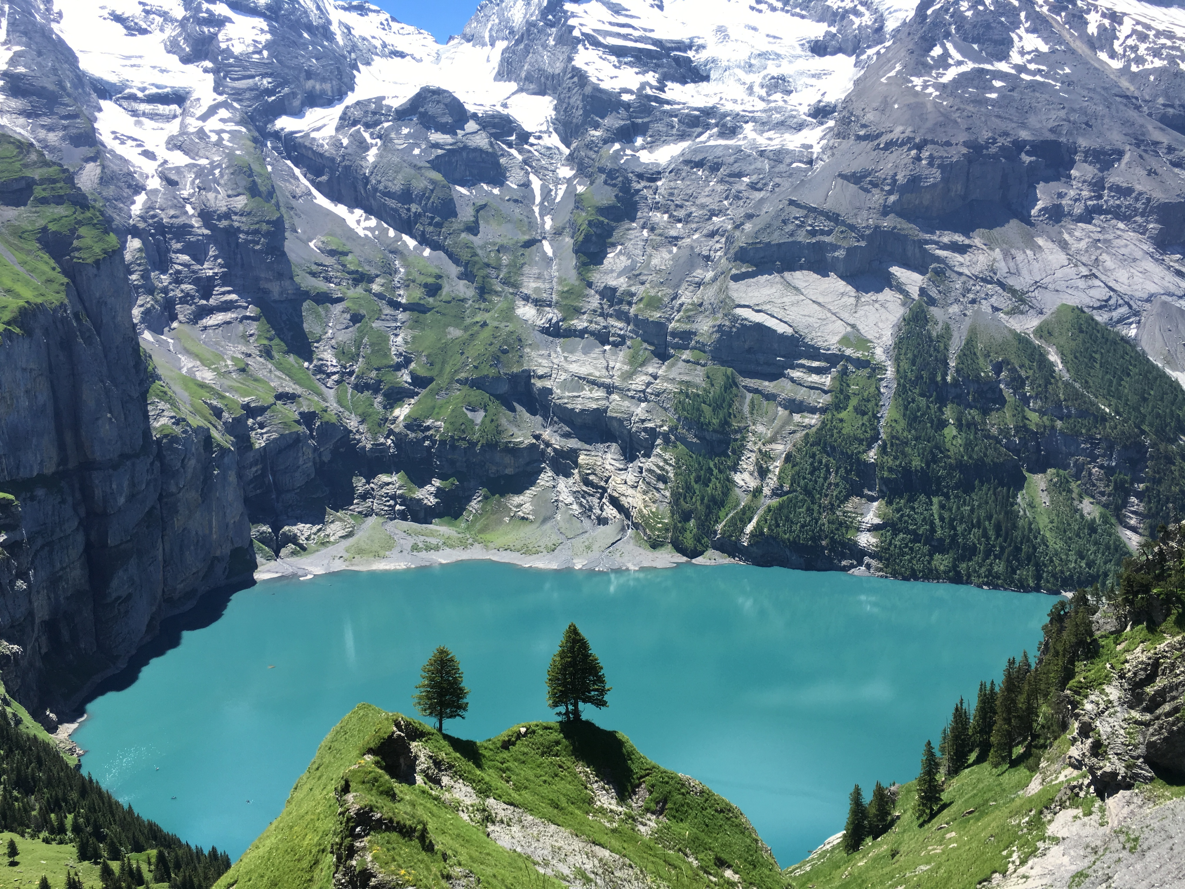 Oeschinen lake